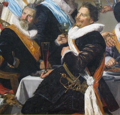 A dog sniffs at the knee of Johan Schatter, detail of Officers of the St. Adrian Civic Guard, 1627, Haarlem This image is available from the Netherlands Institute for Art Historyunder digital ID 11012. This tag does not indicate the copyright status of the attached work. A normal copyright tag is still required. See Commons:Licensing.